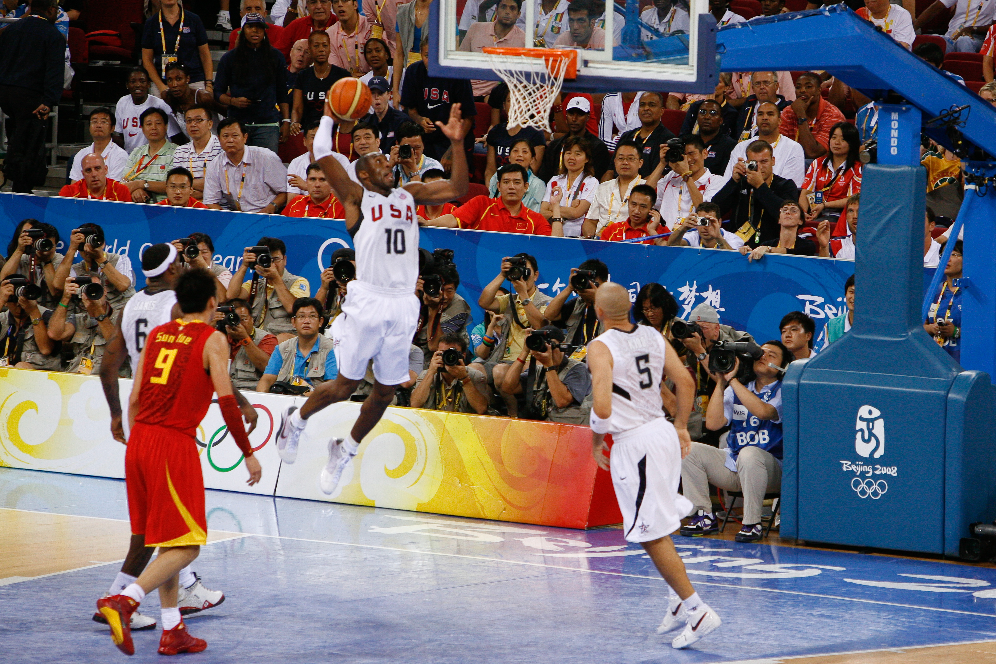 Kobe Bryant FTW - Beijing 2008 Olympics